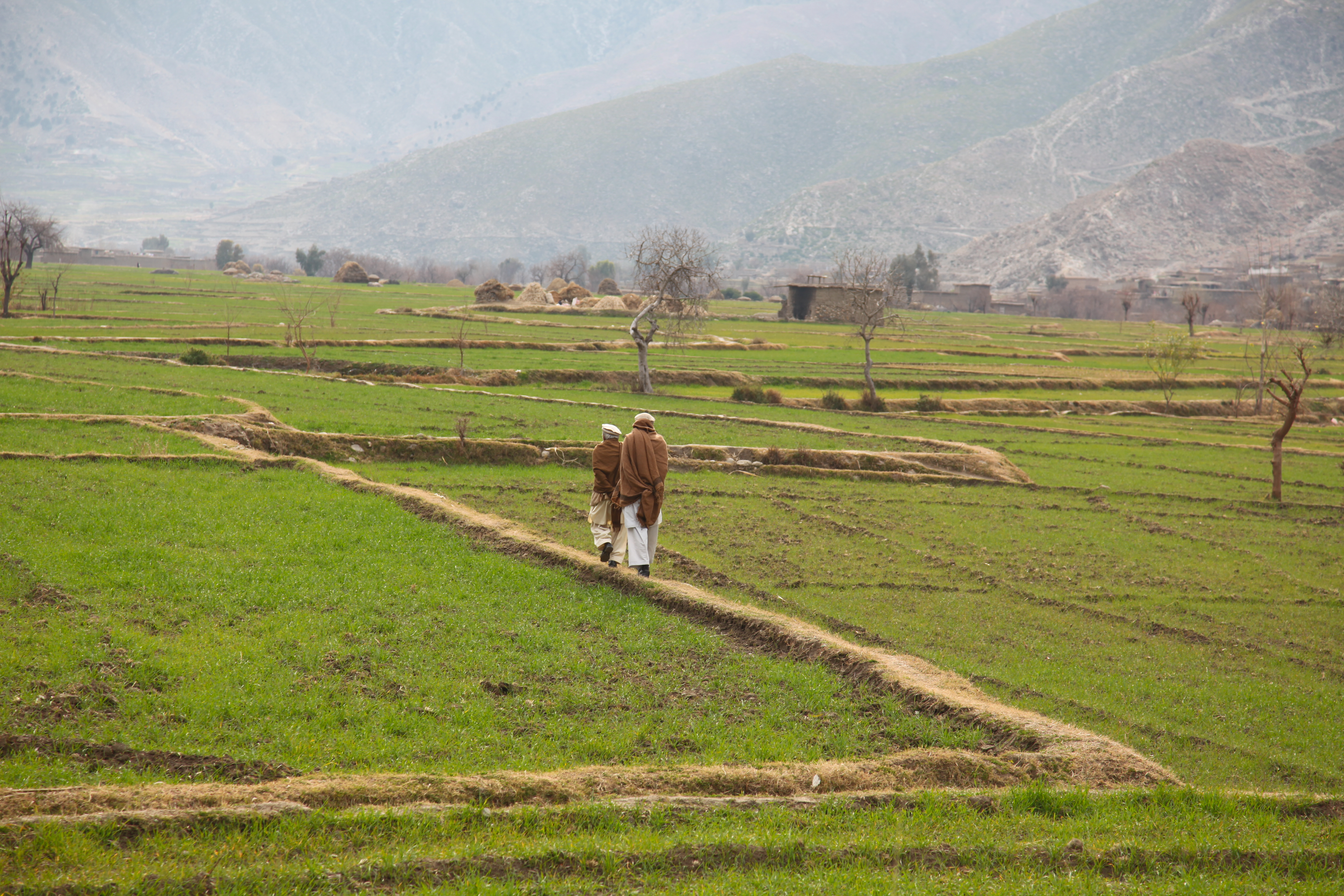 Afghan locals walk through a field Jan. 14, 2012, in Mulkanah Village, Watapur district, Kunar province, Afghanistan. The objective of the mission was to talk with the local population and deny insurgents freedom of movement in the area. (Photo ID: 512082)